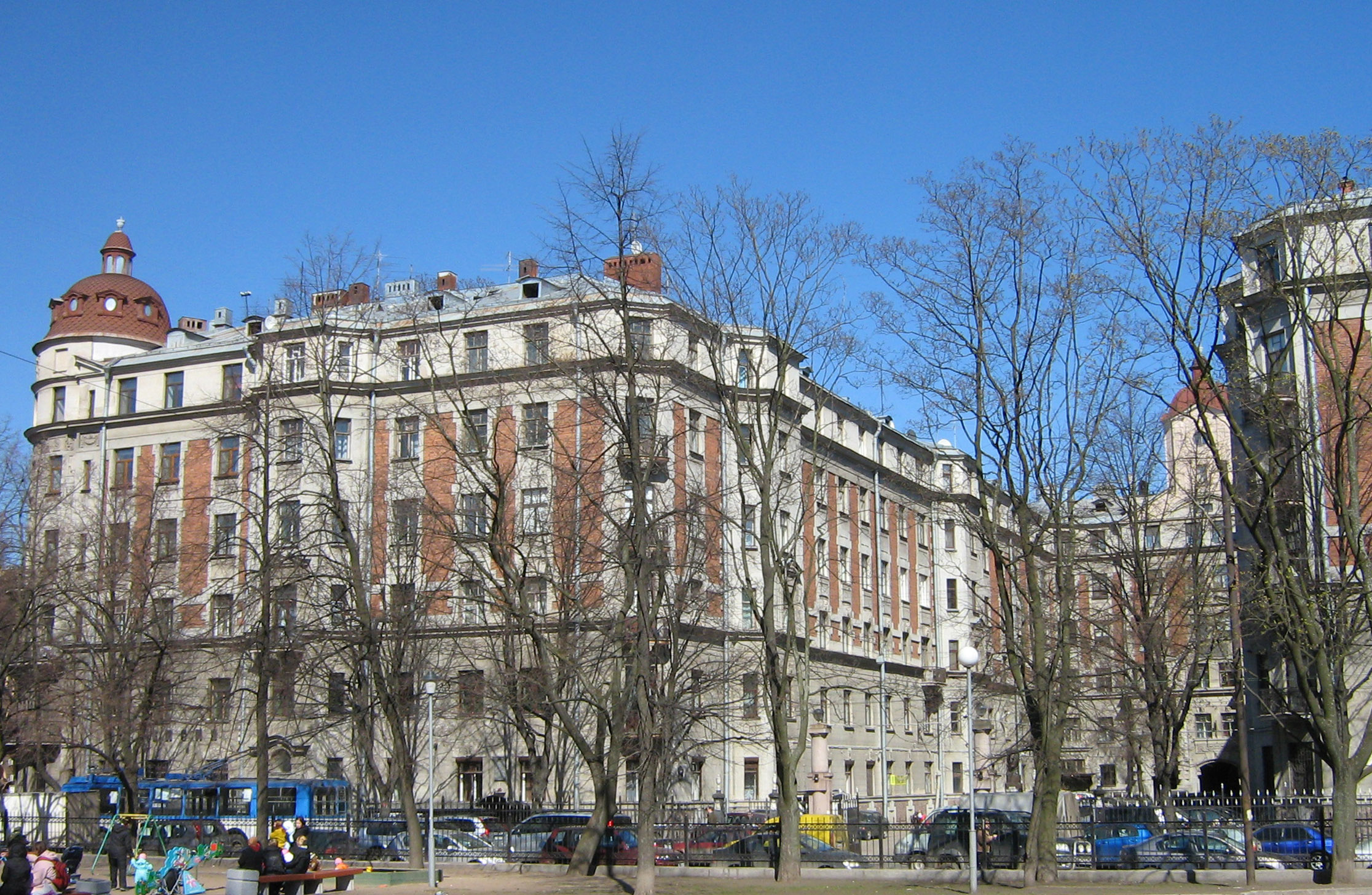 29, Kronverkskaya street - "Benois House" (Saint-Petersburg, Russia).